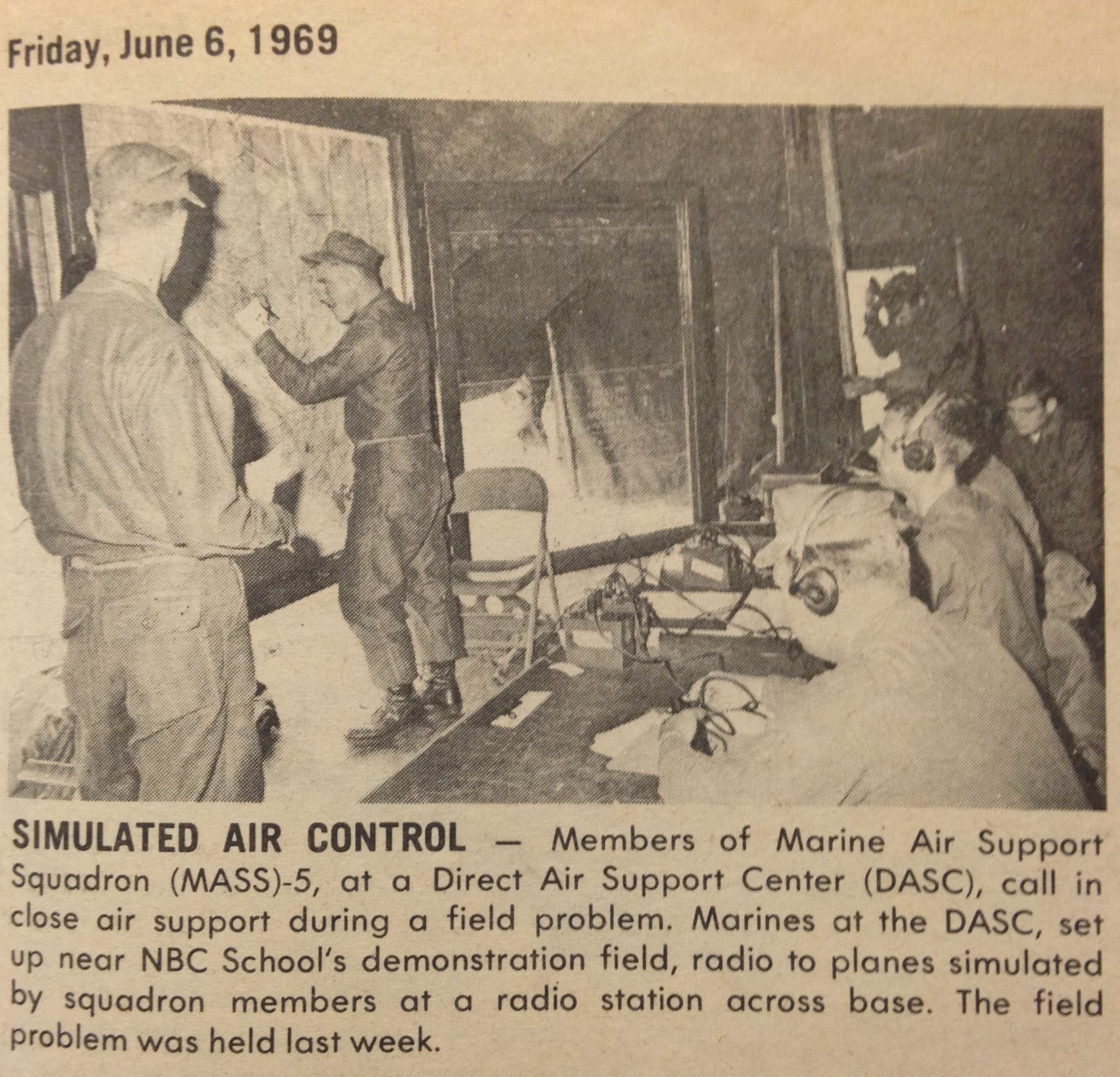 Photo and caption from the MCAS El Toro Flight Jacket depicting Marines from MASS-5 operating in the Direct Air Support Center.